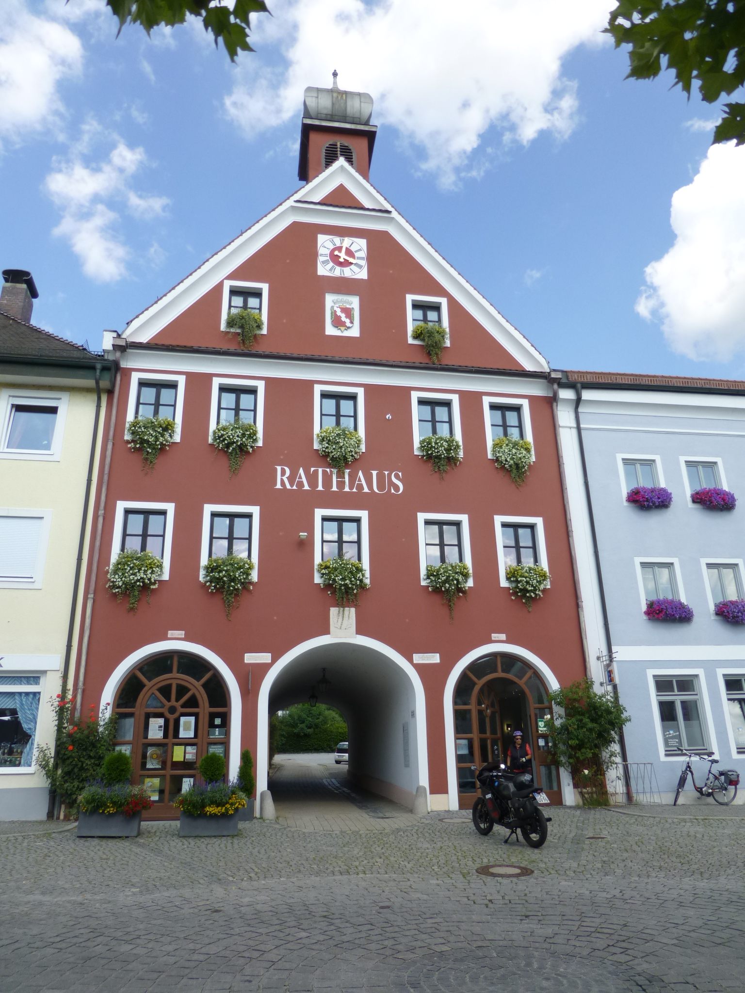 Ortenburg Town hall